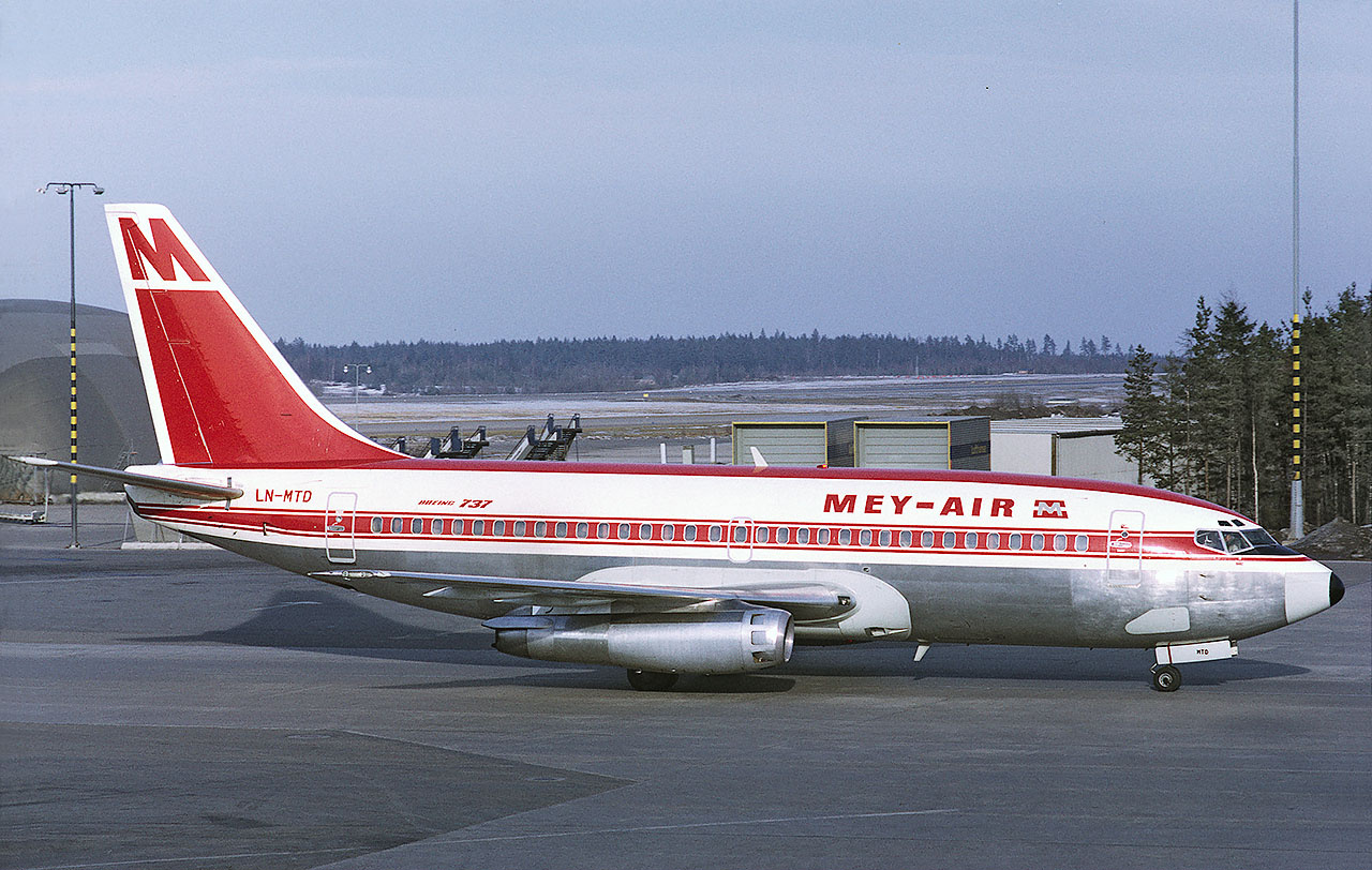 Mey-Air Boeing 737-2H5 at Stockholm-Arlanda Airport